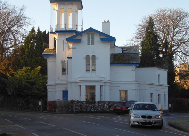 House on The Park The Park is an almost circular road in the south of Cheltenham. Inside the circle is almost totally occupied by the Park Campus of the University of Gloucestershire with just a few houses, this being one of them.